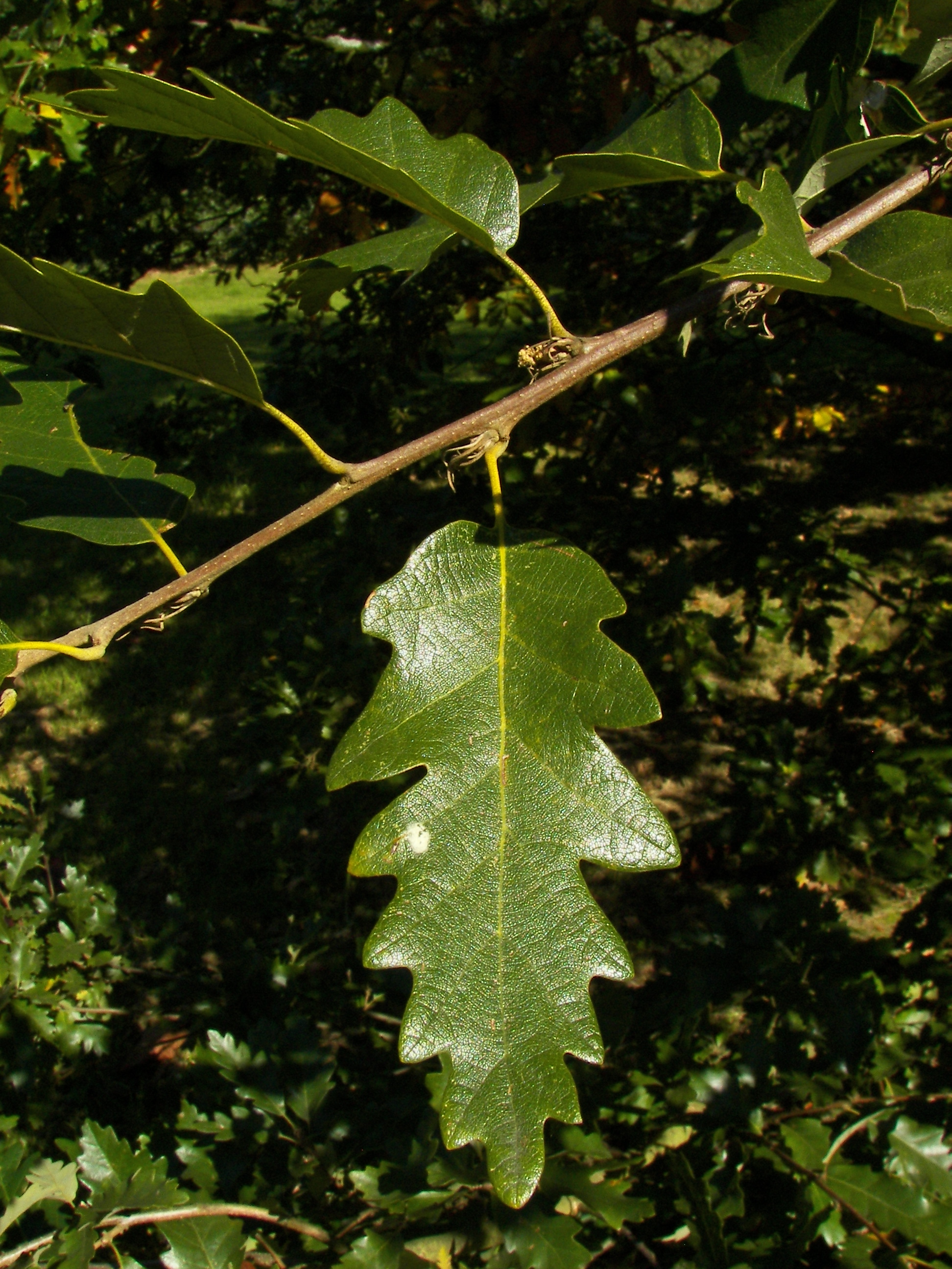 Leaf of the Turkey Oak (Quercus cerris), Location: New botanical garden Marburg, Hesse, Germany